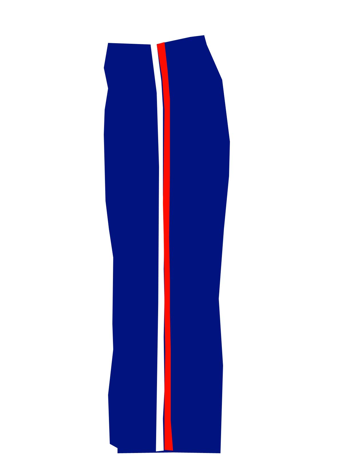 MBC Uniform